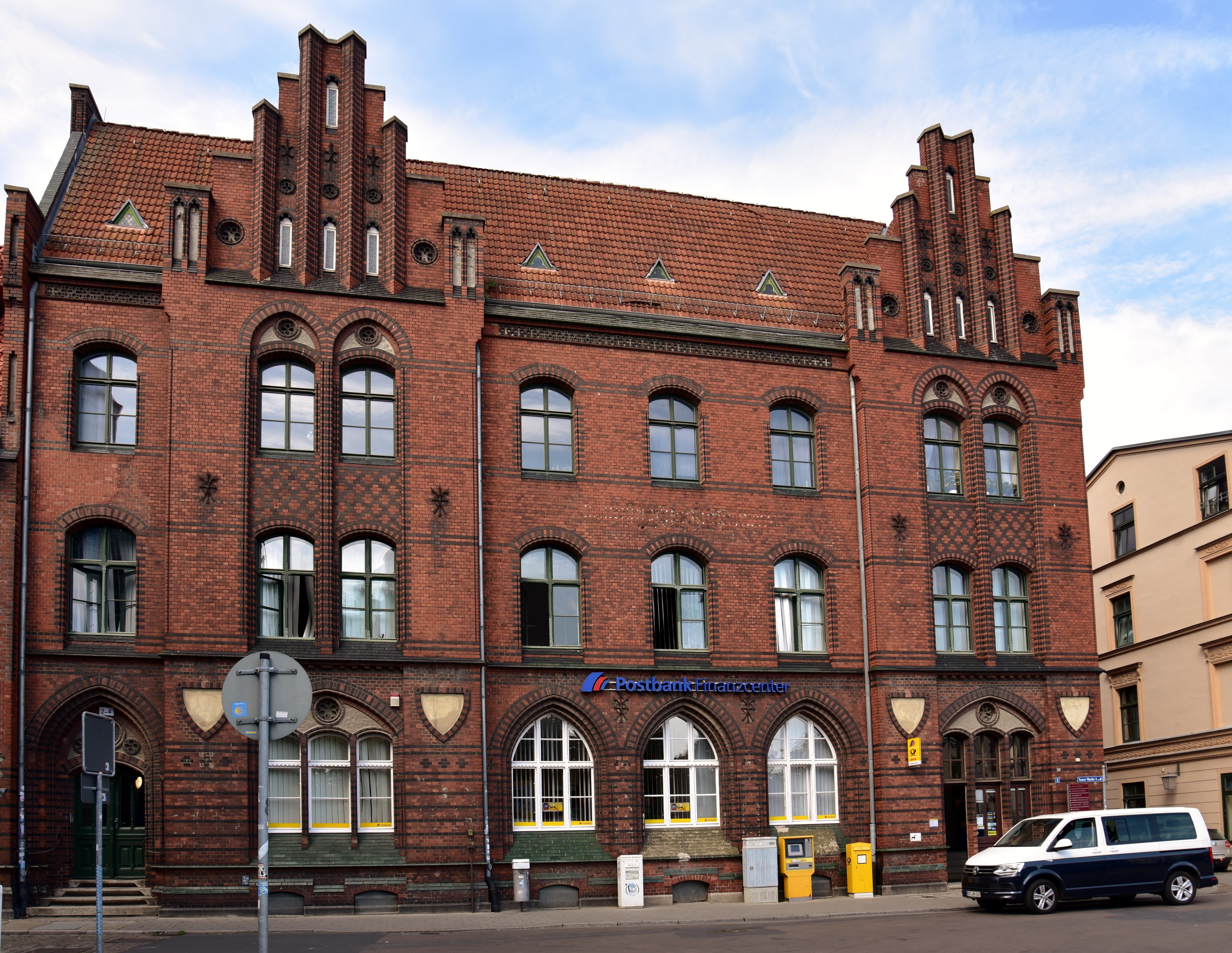 View of Neuer Markt 3/4 in Stralsund